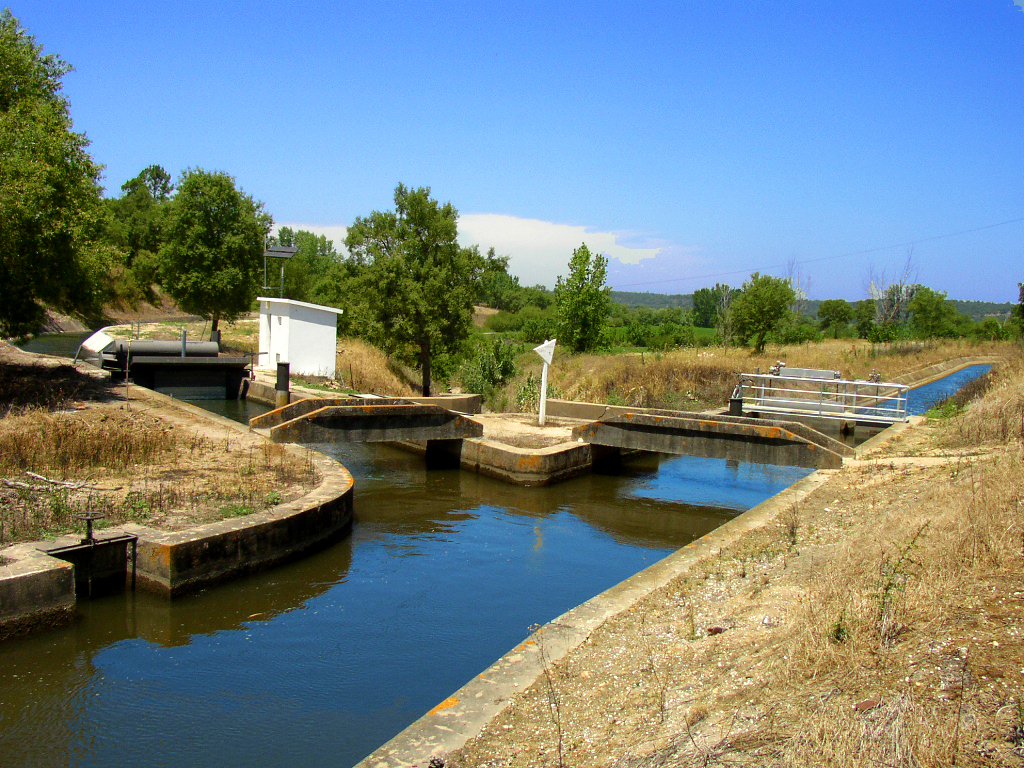 Sorraia Irrigation Channel - Peso Distributor